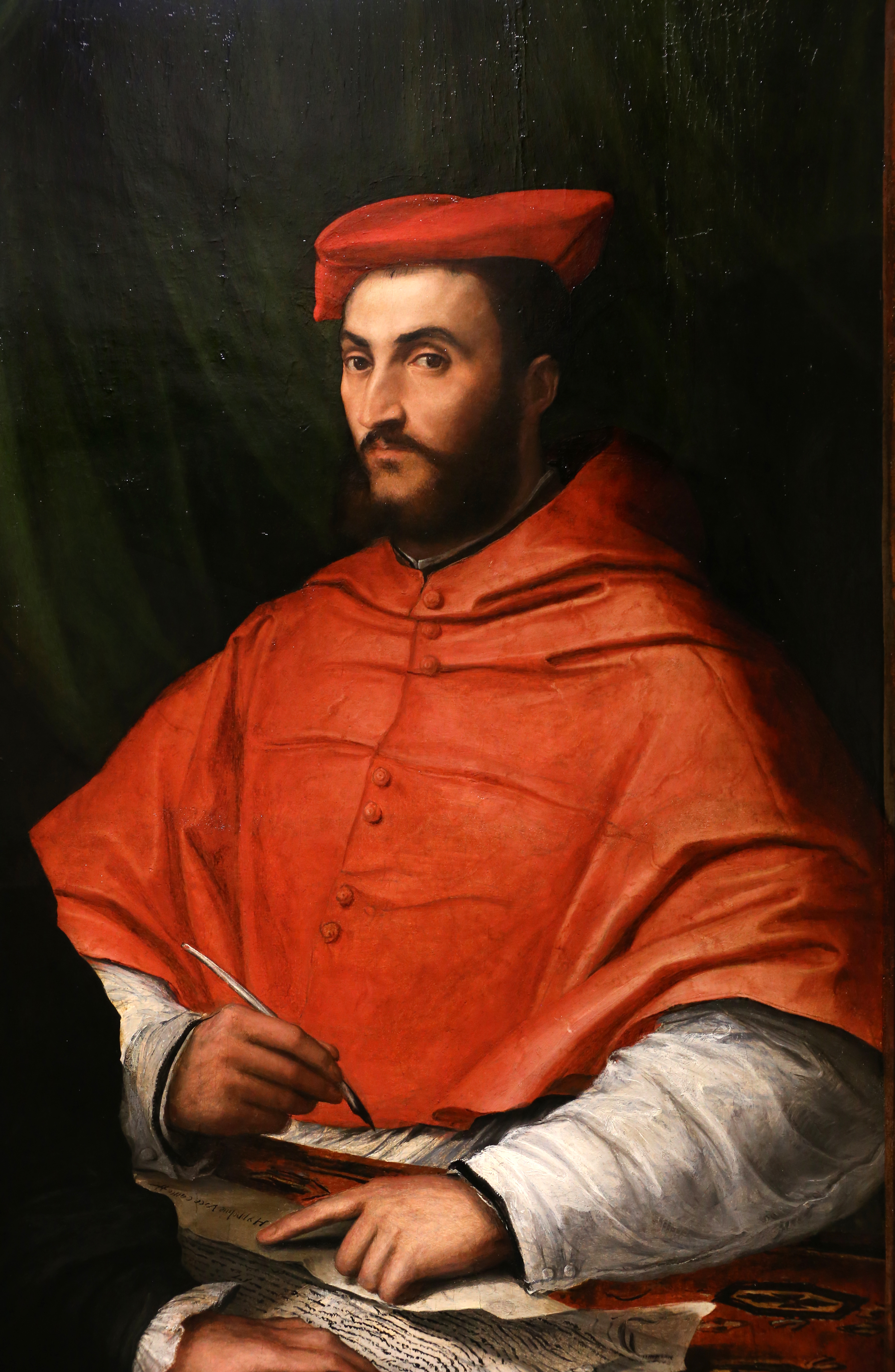 Italian Mannerist paintings in the National Gallery, London